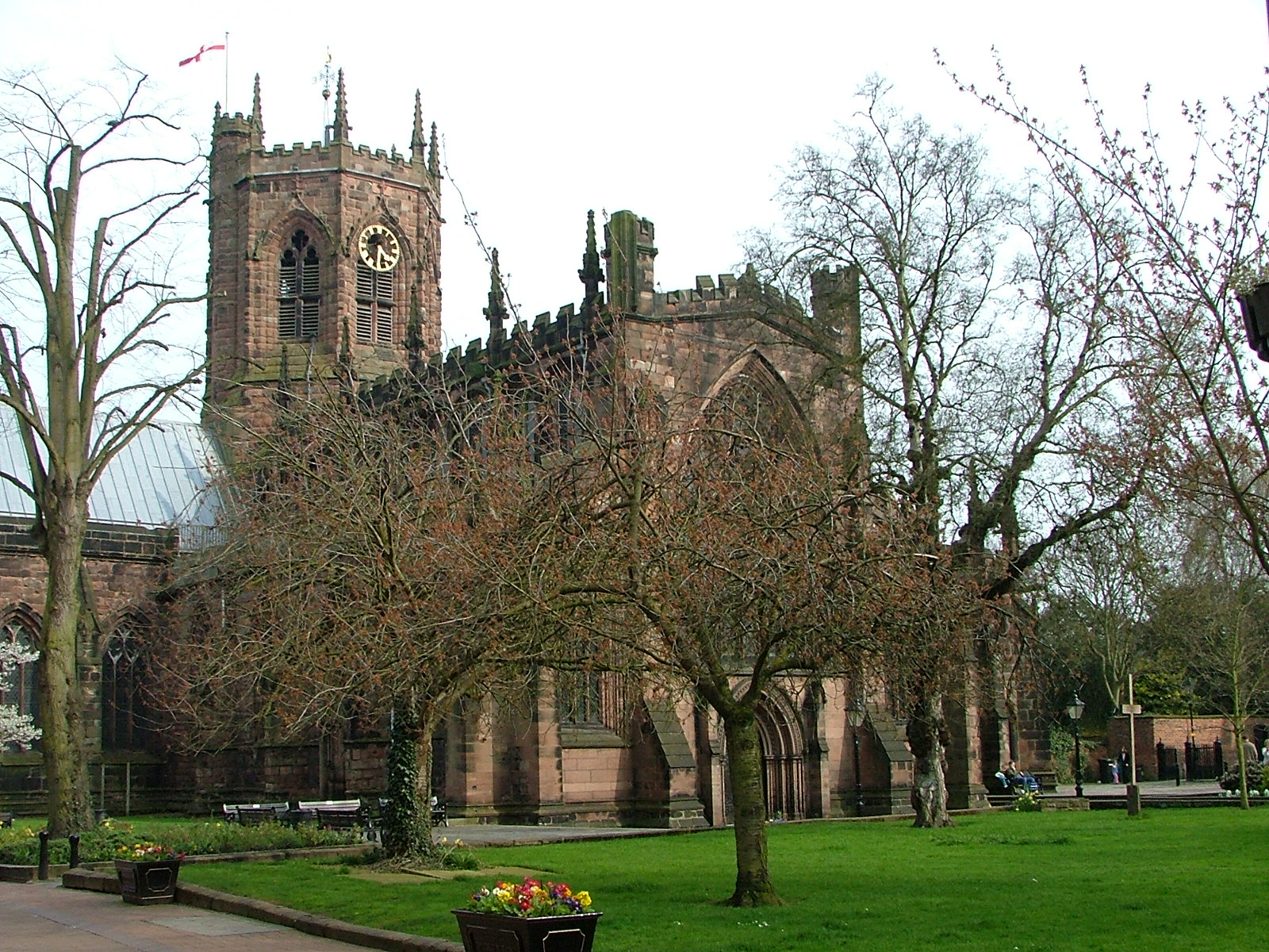 Parish Church of St. Mary, Nantwich, Cheshire